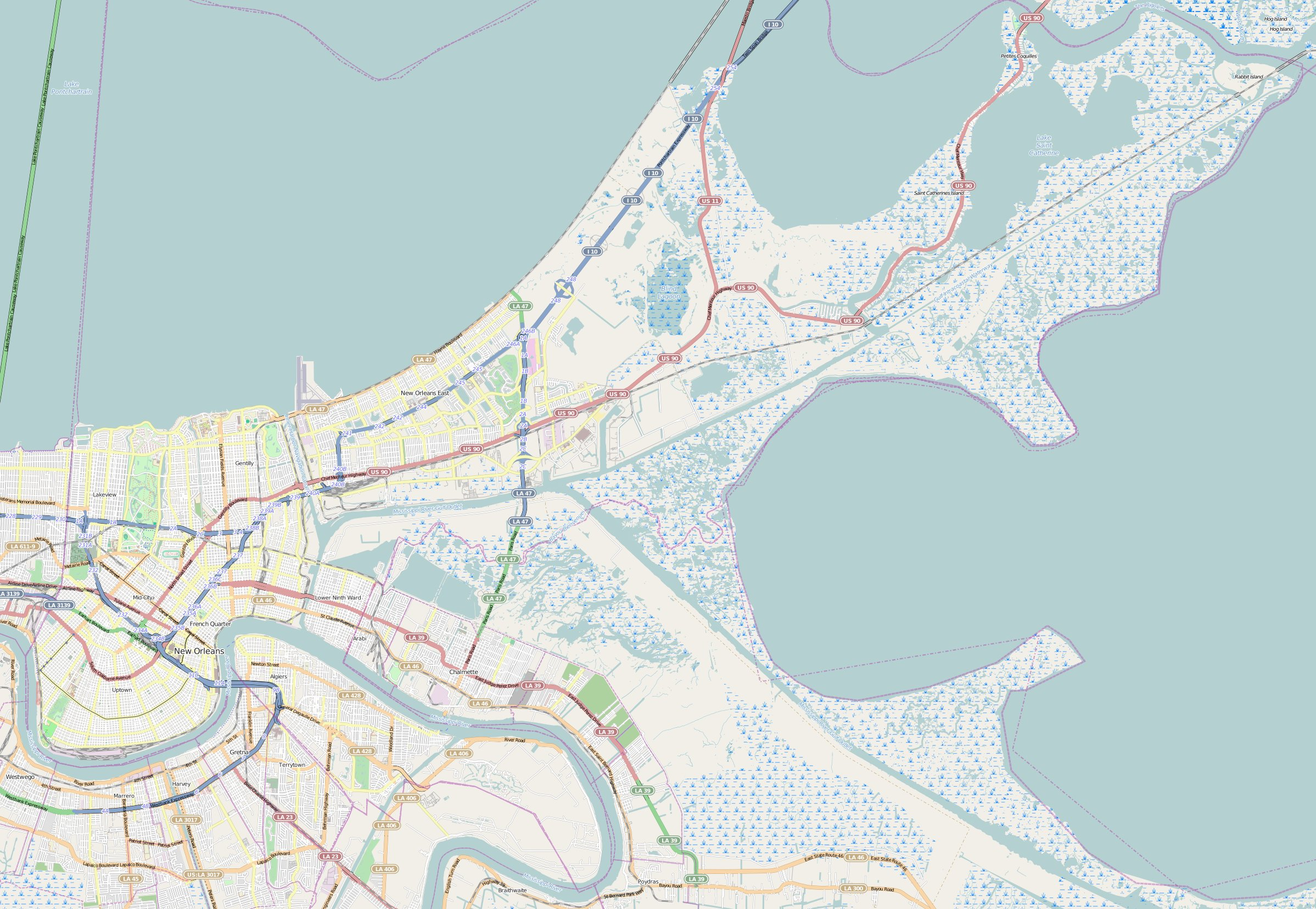 This map of New Orleans was created from OpenStreetMap project data, collected by the community. This map may be incomplete, and may contain errors. Don't rely solely on it for navigation.